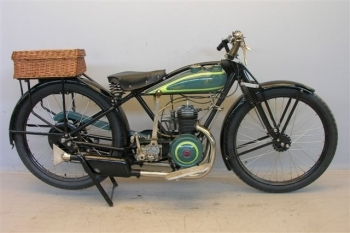 Rex 175 cc Villiers-engine from 1928 by Rex (Halmstad).